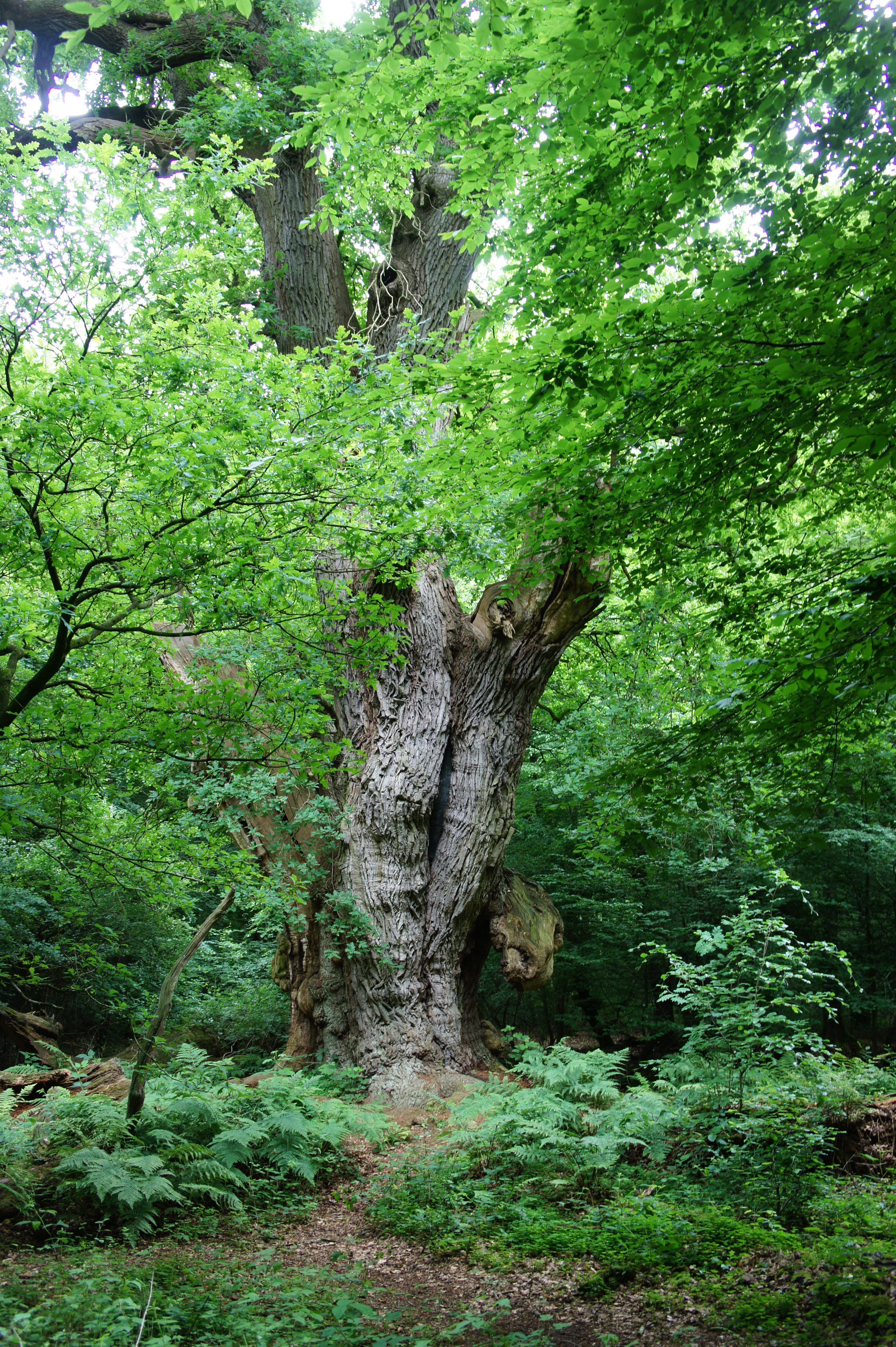 Friederikeneiche in Hasbruch in June 2015